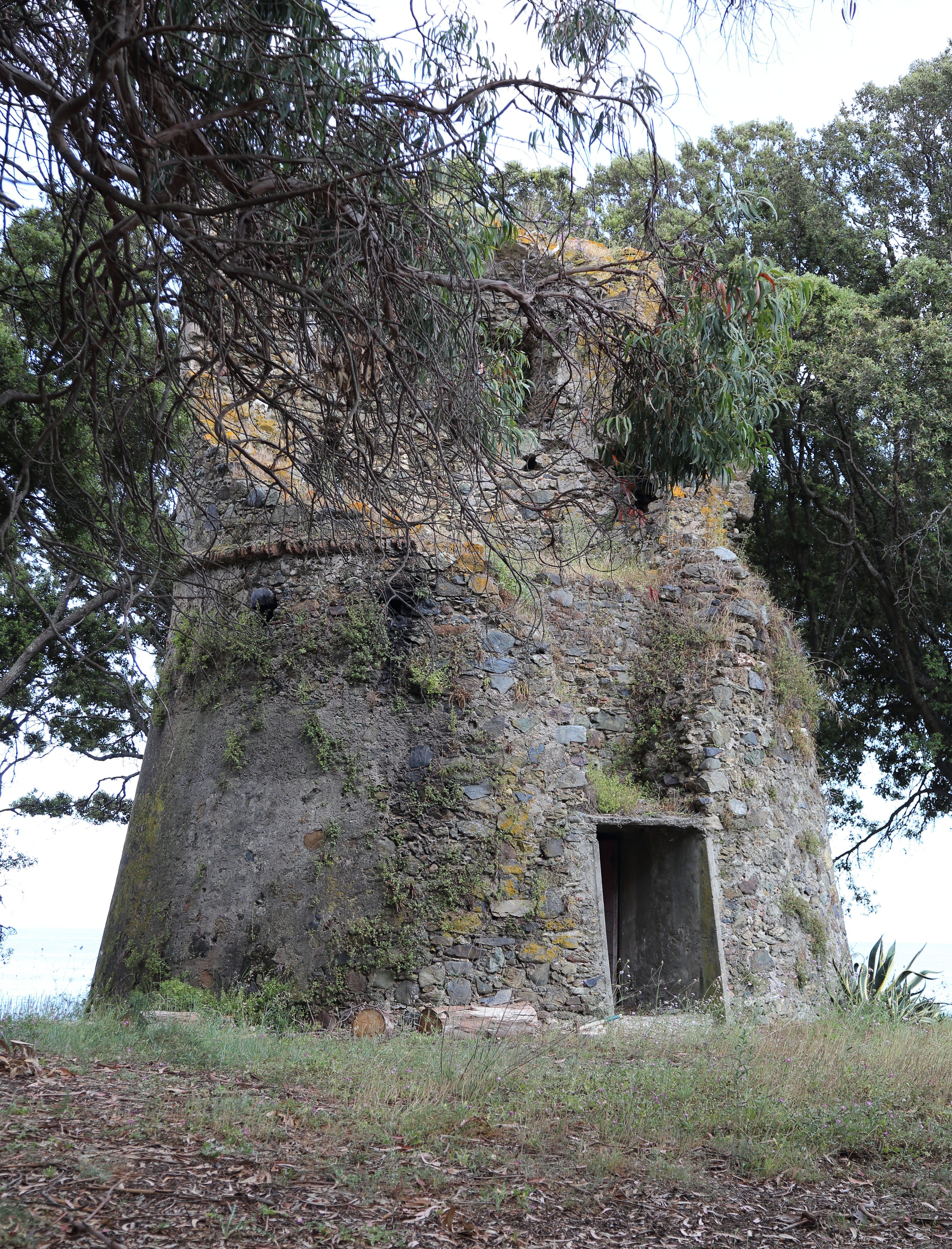 The ruins of the Tour d'Alistro. The Genoese tower is located in the commune of Canale-di-Verde on the east coast of Corsica